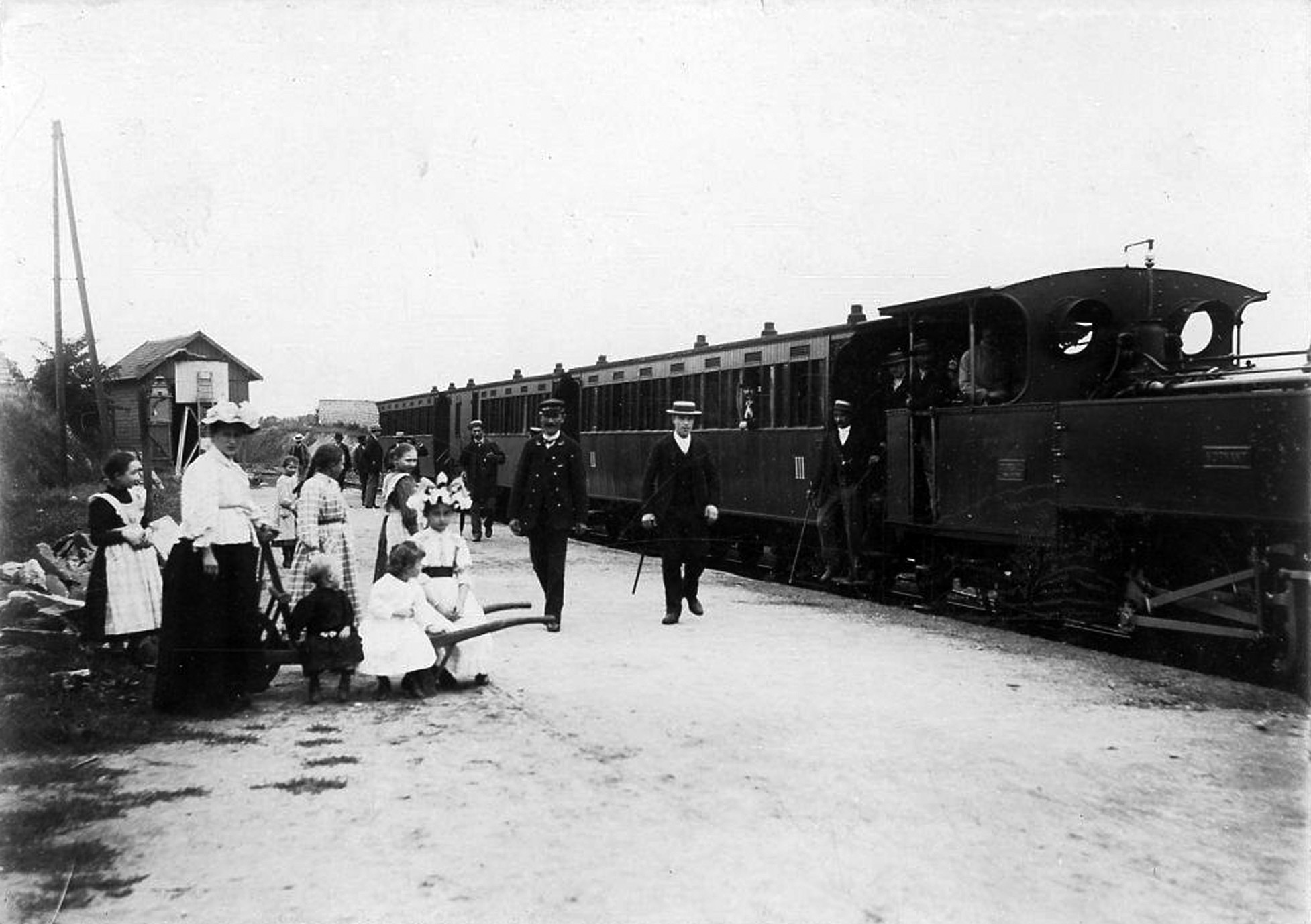 French narrow gauge station scene